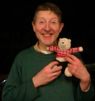 Hugh Whitaker meets a devoted fan, Ian the Polar Bear, after appearing with Pocketful O'Nowt in "The Bar Steward Son's of Val Doonican's Christmas Rock and Roll Circus" at the Electric Theatre, Barnsley, in December 2012